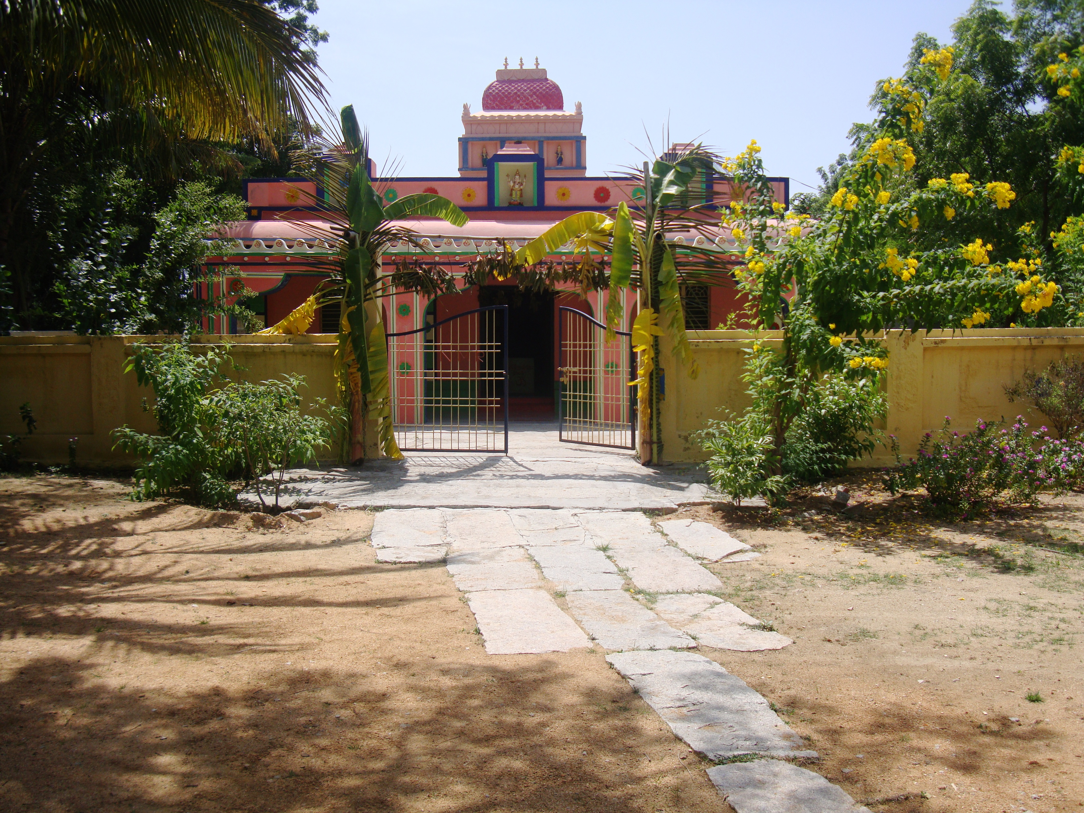 ShriVarasiddhiVinayakaSwamyTemple:SeethammaGutta, Gongivaripalle, Sodam, Chittoor